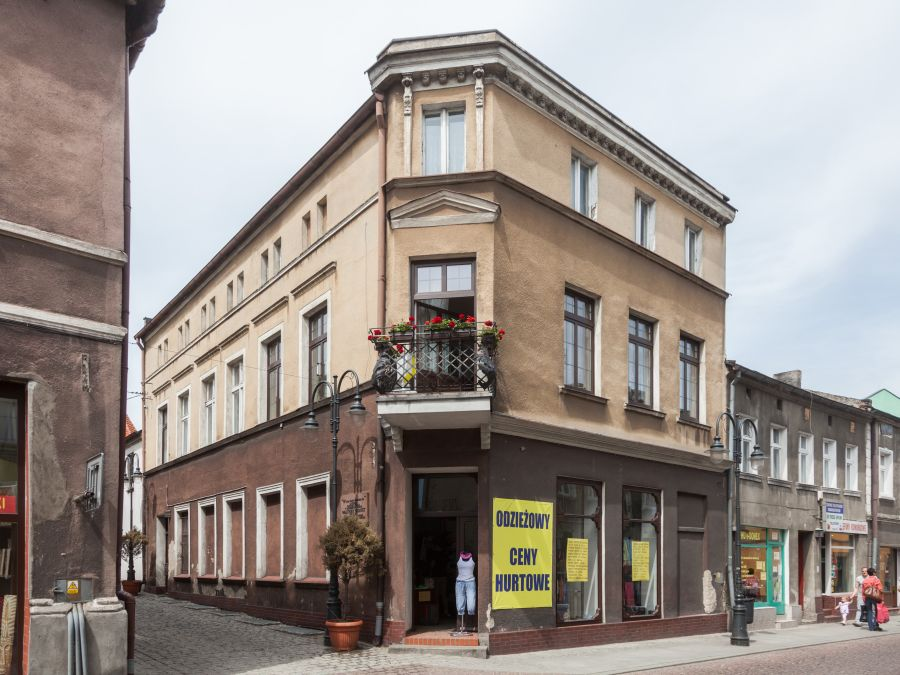 House in Wąbrzeźno, Poland - birthplace of Walther Nernst.